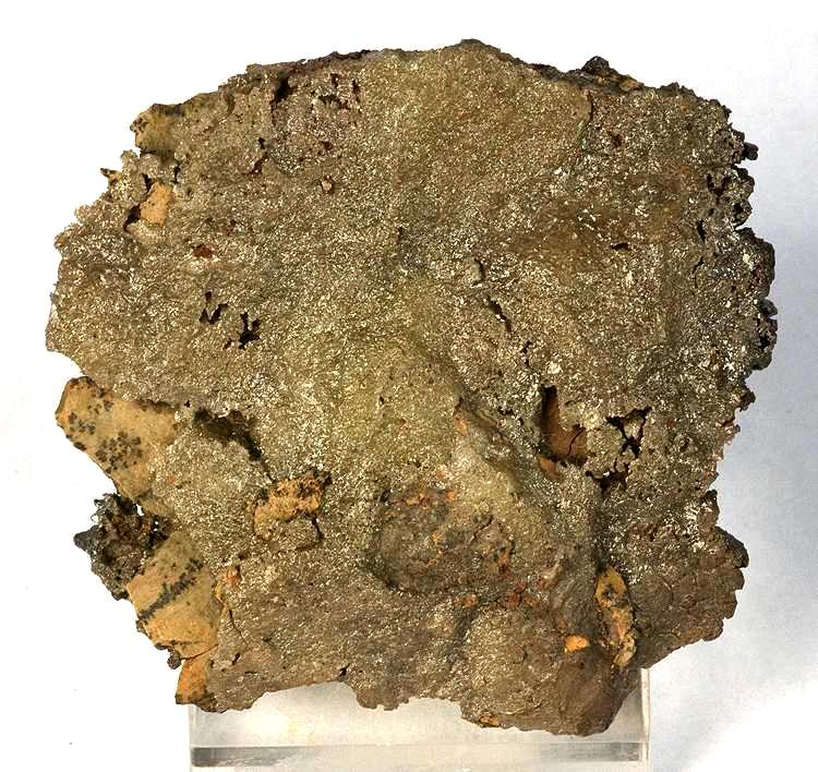 Chlorargyrite (Var.: Bromian Chlorargyrite) Locality: Chañarcillo, Copiapó Province, Atacama Region, Chile (Locality at ) Size: 5.0 x 4.7 x 1.0 cm. An incredible, old-time specimen from Chanarcillo of a solid sheet of waxy lustre, yellow-green, bromian chlorargyrite microcrystals on a thin, platy matrix crust. Embolite is an old-time synonym for bromian chlorargyrite. Extremely rich and seldom available material in this quality from this classic locale. Much more rare from here than from Australia, where most specimens once came from. Ex. Drs. Jean Behier and Eric Asseborn Collections.